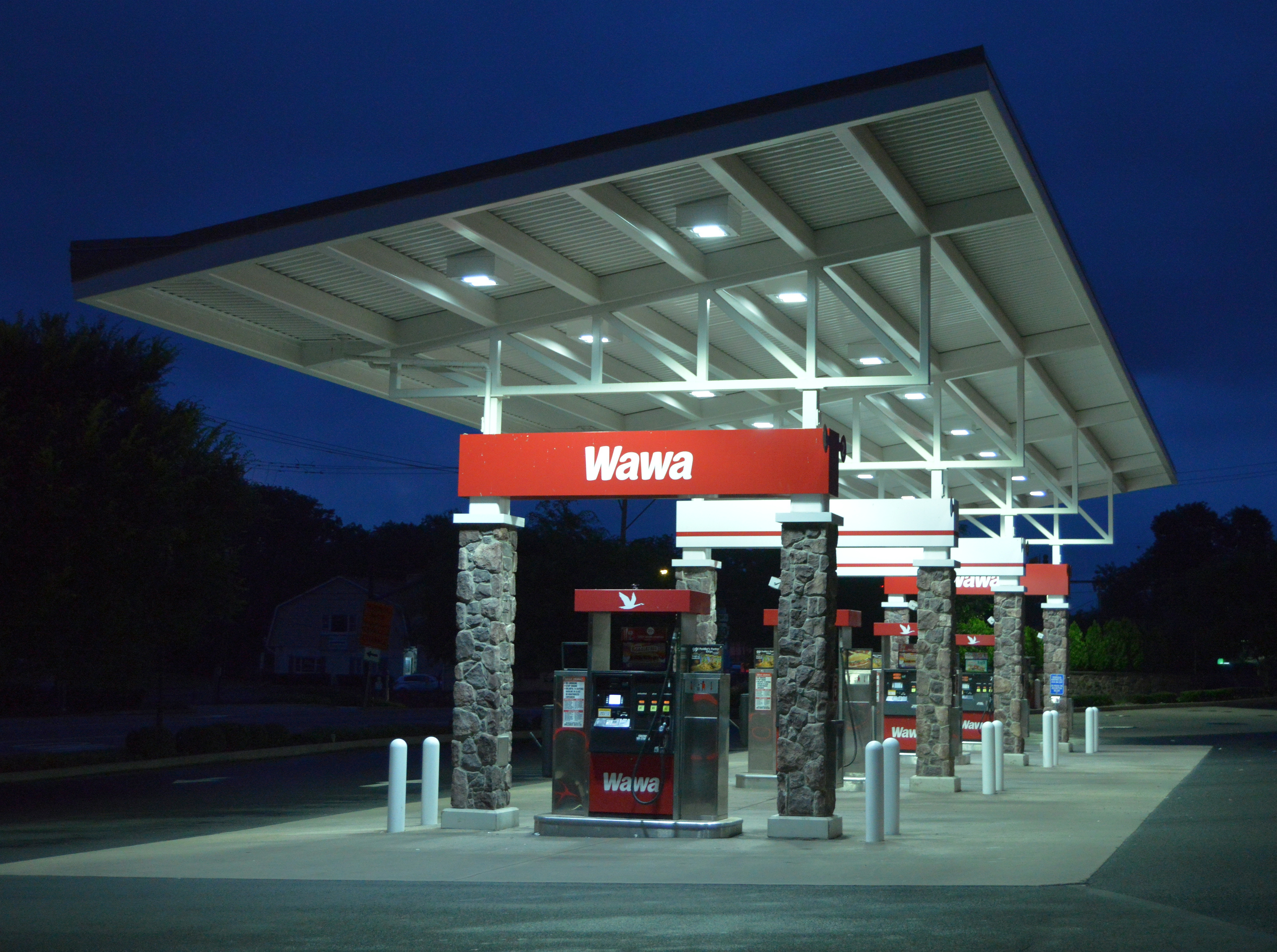 Wawa station in Montgomery County, Pennsylvania.